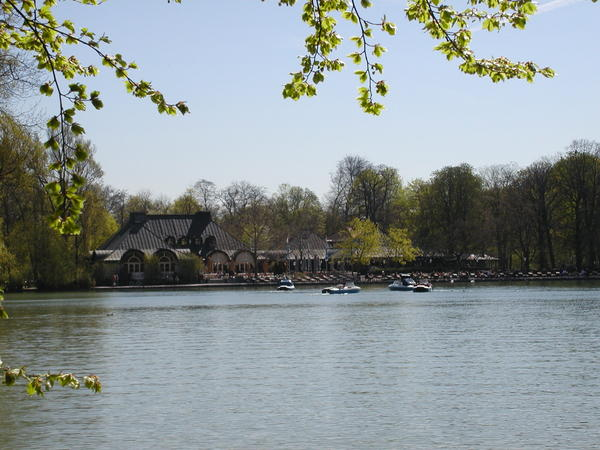 Kleinhessenloher See, Munich, Englischer Garten, Munich, Germany